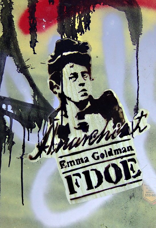 Graffito of Emma Goldman in Montreal, Canada. Image taken from this photograph from Flickr user duluoz cats, licensed under Creative Commons Attribution 2.0 Generic.